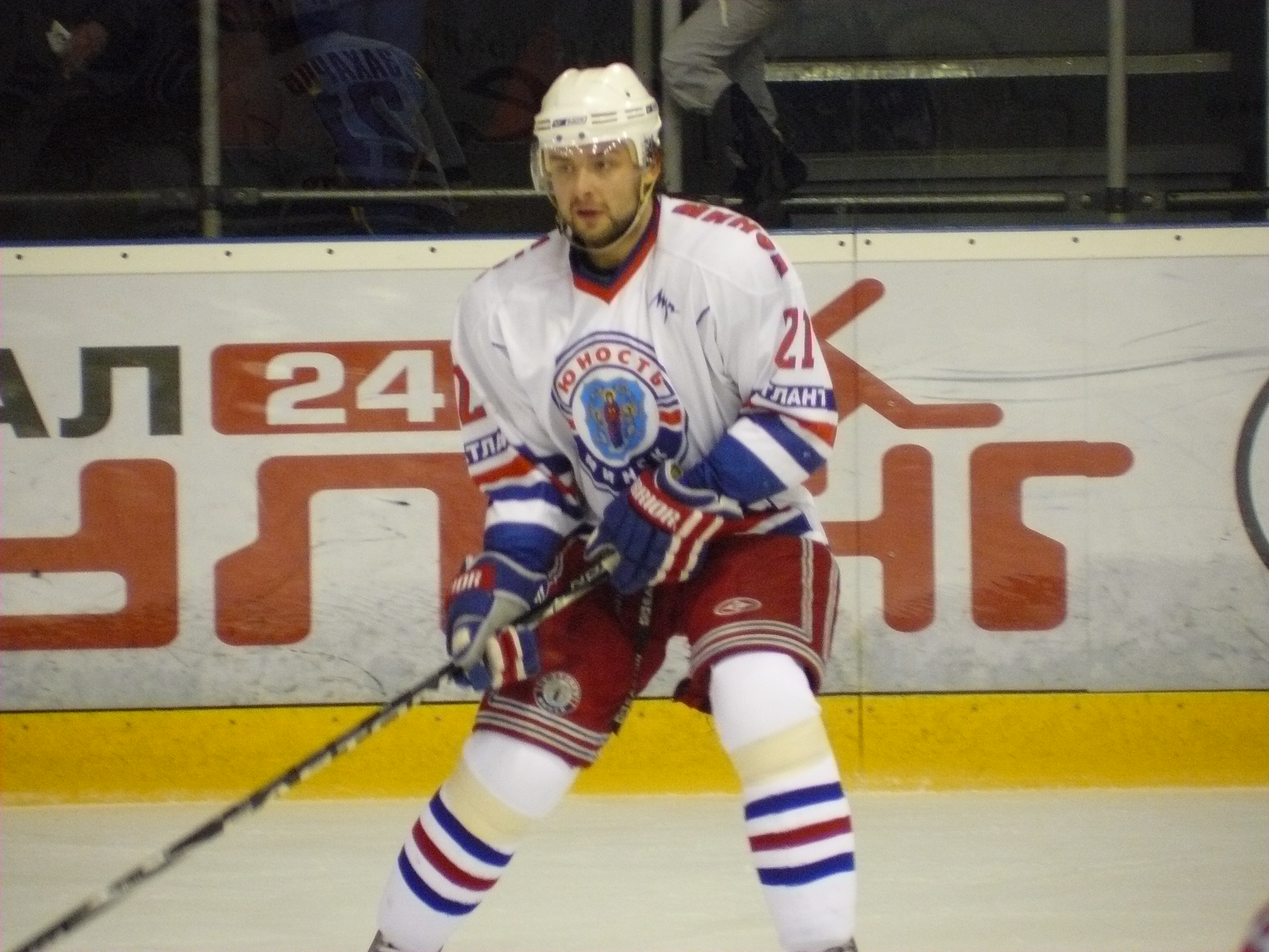 Forward Konstantin Zakharov #21 of the Junost Minsk stands during the Belarusian Extraliga game against Sokil Kyiv at Terminal on March 16, 2010 in Brovary, Ukraine. Junost Minsk won the game 1-0.